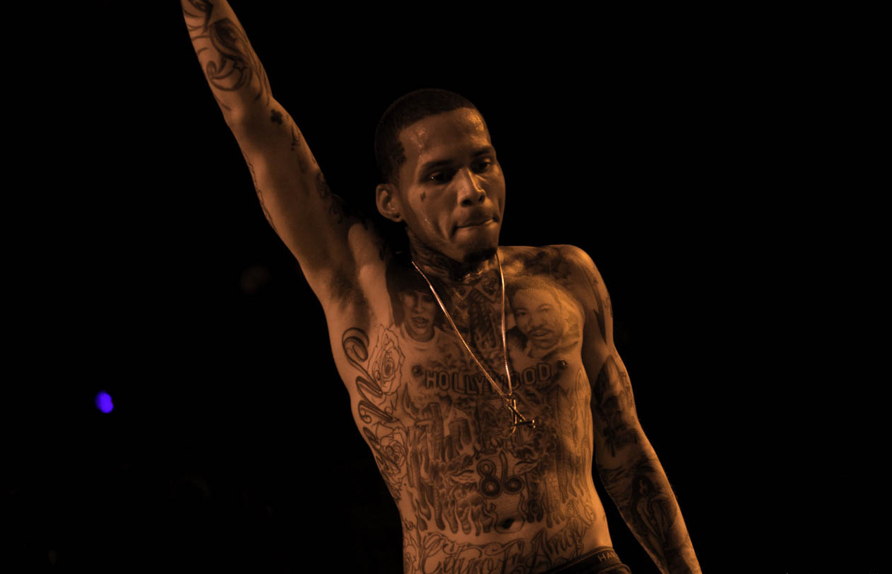 Image of American rapper Kid Ink